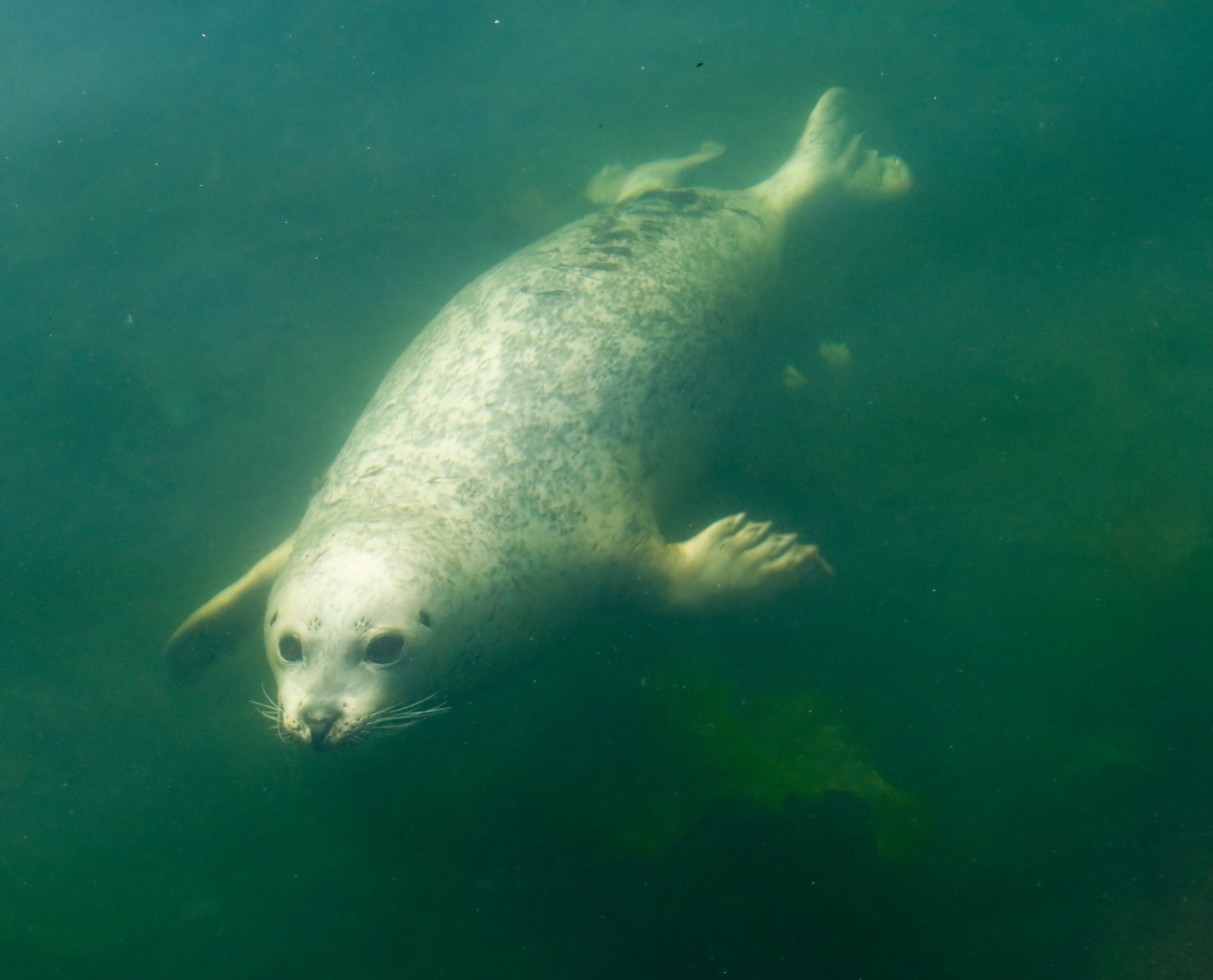 A pinniped underwater